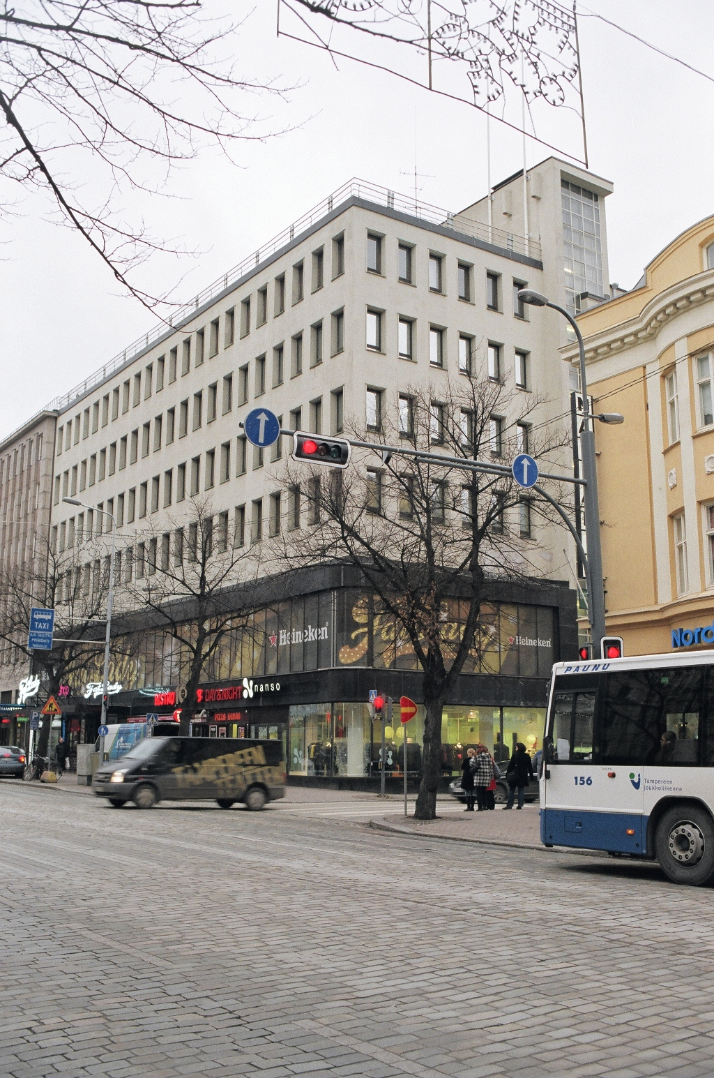 An apartment and office building at Hämeenkatu 10 in central Tampere, Finland.